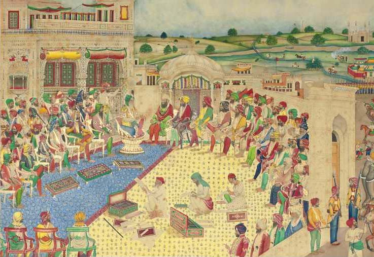 Katibs making note of events at the court of Ranjit Singh; *the whole painting* (downloaded Sept. 2008 "THE COURT OF RANJIT SINGH BISHAN SINGH (1836-CA.1900), LAHORE, INDIA, CIRCA 1864 Gouache heightened with gold on thick paper, set in the Fort of Lahore on the terrace of the ornate building with entrance arch in the lower right hand corner and main buildings in the upper left, Ranjit Singh sits towards the centre on his gold throne surrounded by brightly clad family members and courtiers, in the background a hilly landscape with further encampment, with gold, blue and black outer rules obstructed by mount, signed in Gurumuki on a fragment of the surviving cover sheet, 'Bishan Singh Musavar Bannee', buildings and soldiers, paper slightly discloured, minor flaking of paint, mounted, framed and glazed Miniature 14 7/8 x 20½in. (37.5 x 51.9cm.) Lot Notes Bishan Singh, also known as Baba Bishan Singh, came from a family of artists operating in Lahore and Amritsar in the second half of the 19th century. The family were responsible for painting and maintaining the murals and motifs on the walls of the Sikh holiest shrine, the Golden Temple and it is there that Bishan (and his brother Kishan Singh) learnt his trade. Bishan Singh became particularly famous for his detailed depictions of the Court of Maharaja Ranjit Singh (1780-1839).